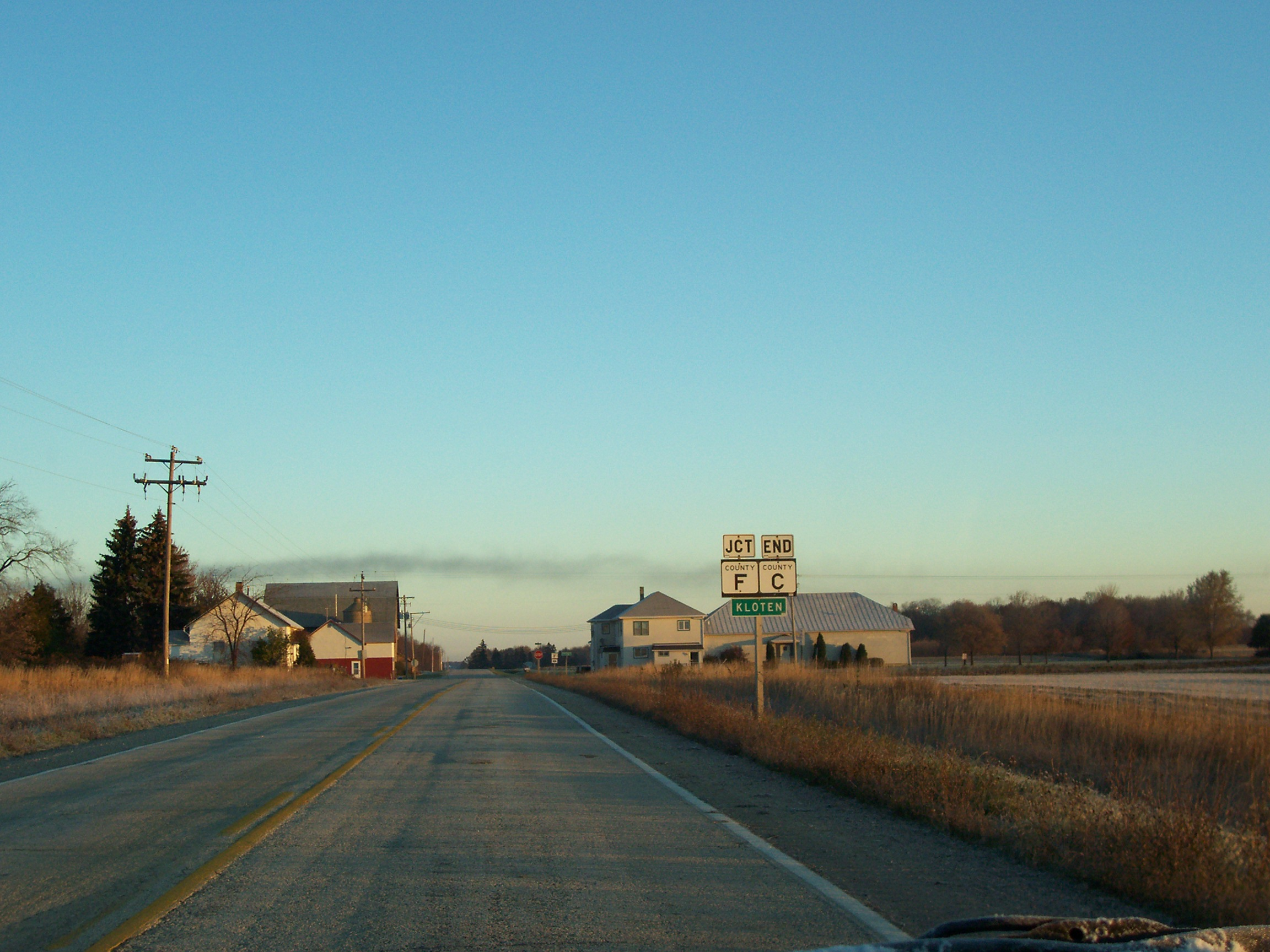 Looking north at all 5 houses and the wedding reception hall in Kloten, Wisconsin, USA, in the early morning. Taken October 25 2006 by myself.